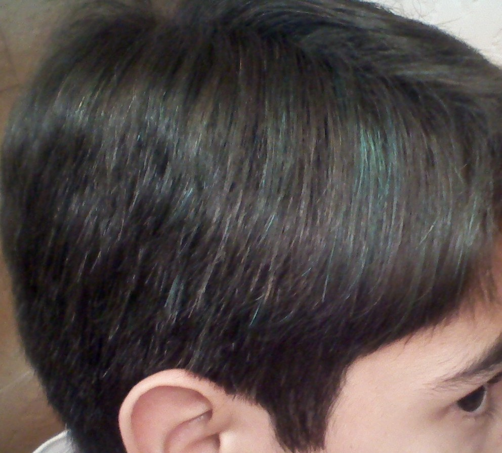 Hair hightlights green